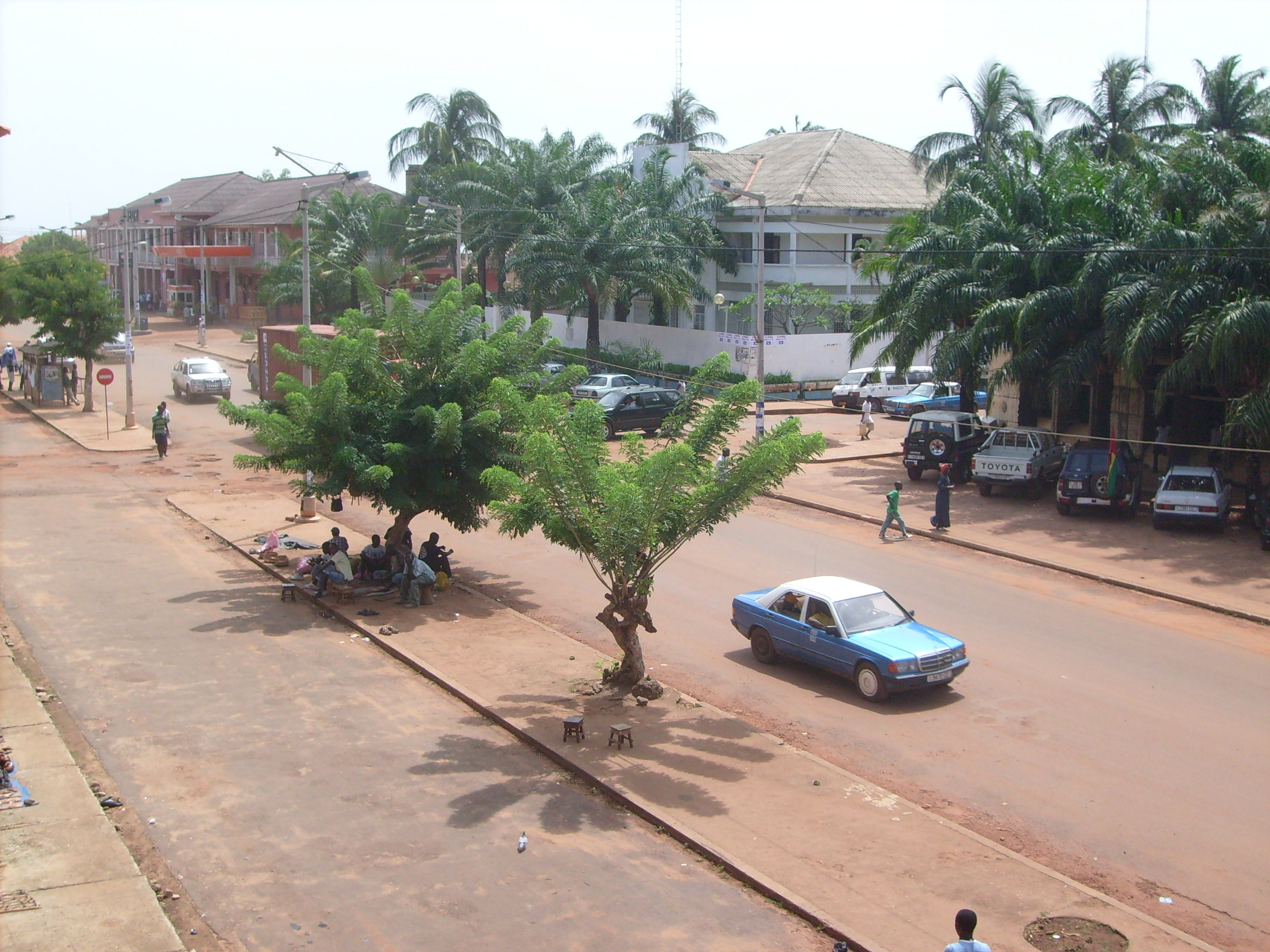 Downtown Bissau, Guinea-Bissau, photographed from Pensao Central balcony